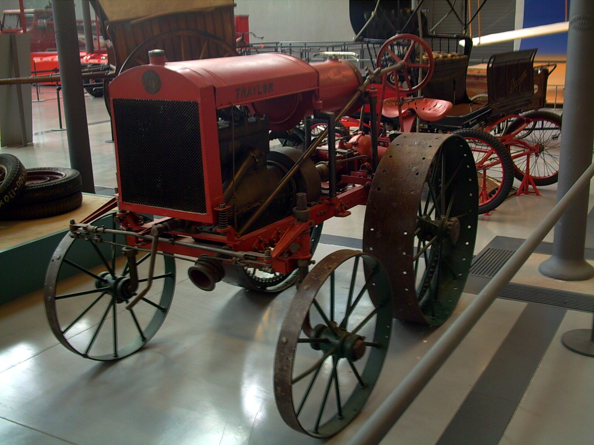 Traylor 6-12 tractor, built 1920-1928, at the mNATEC, Terrassa, (Catalunya).